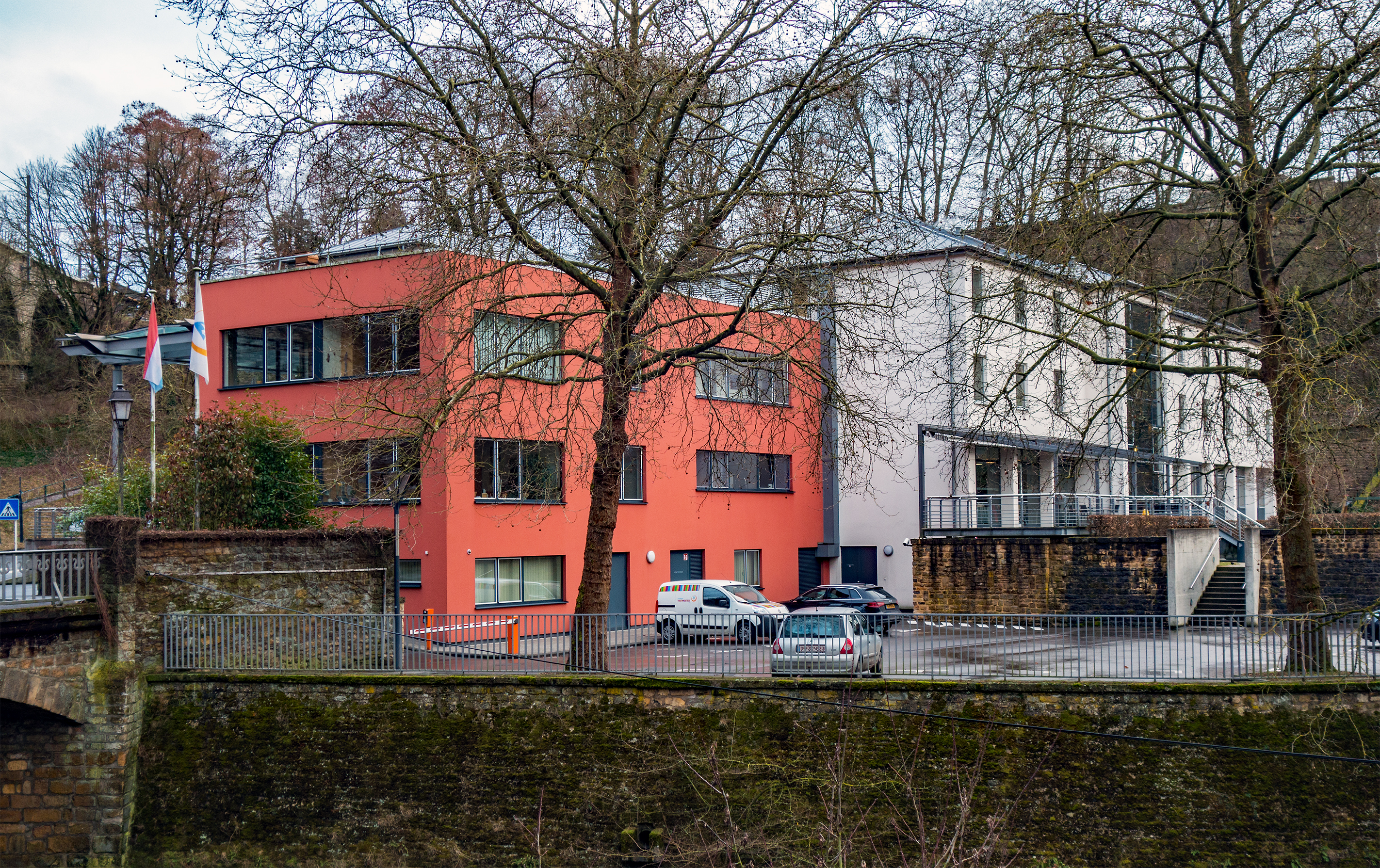 Rear side of the youth hostel in Luxembourg-Pfaffenthal